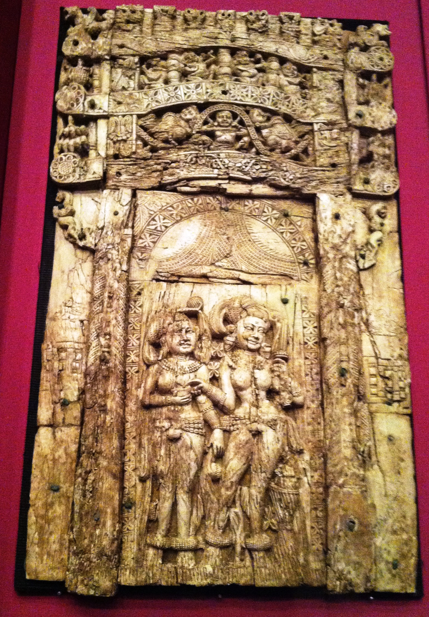 Large decorative plaque with women under a gateway, Begram, Room 13, 1st century A.D., National Museum of Afghanistan, Personal photograph 2011, British Museum.